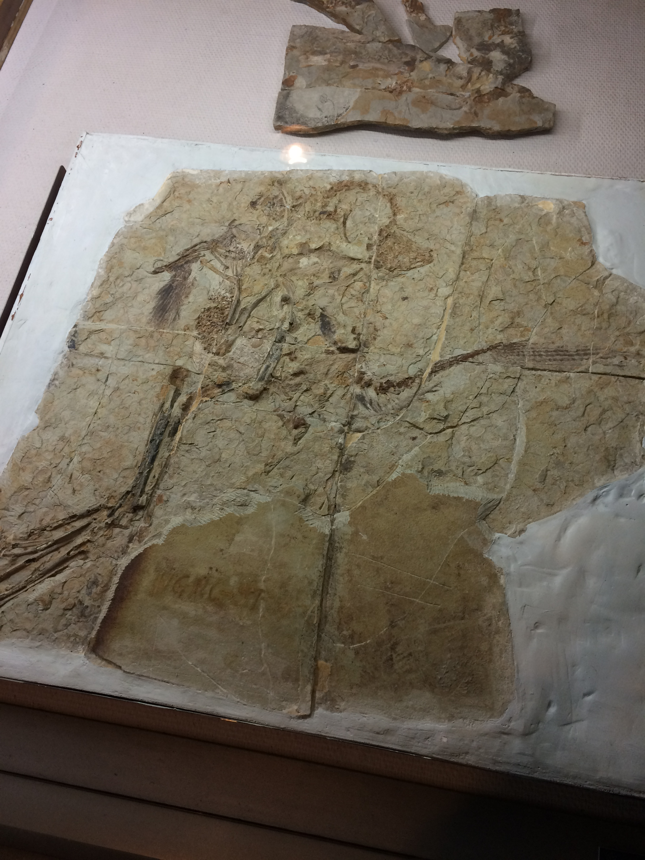 Caudipteryx specimen (NGMC 97−4−A) at the Geological Museum of China